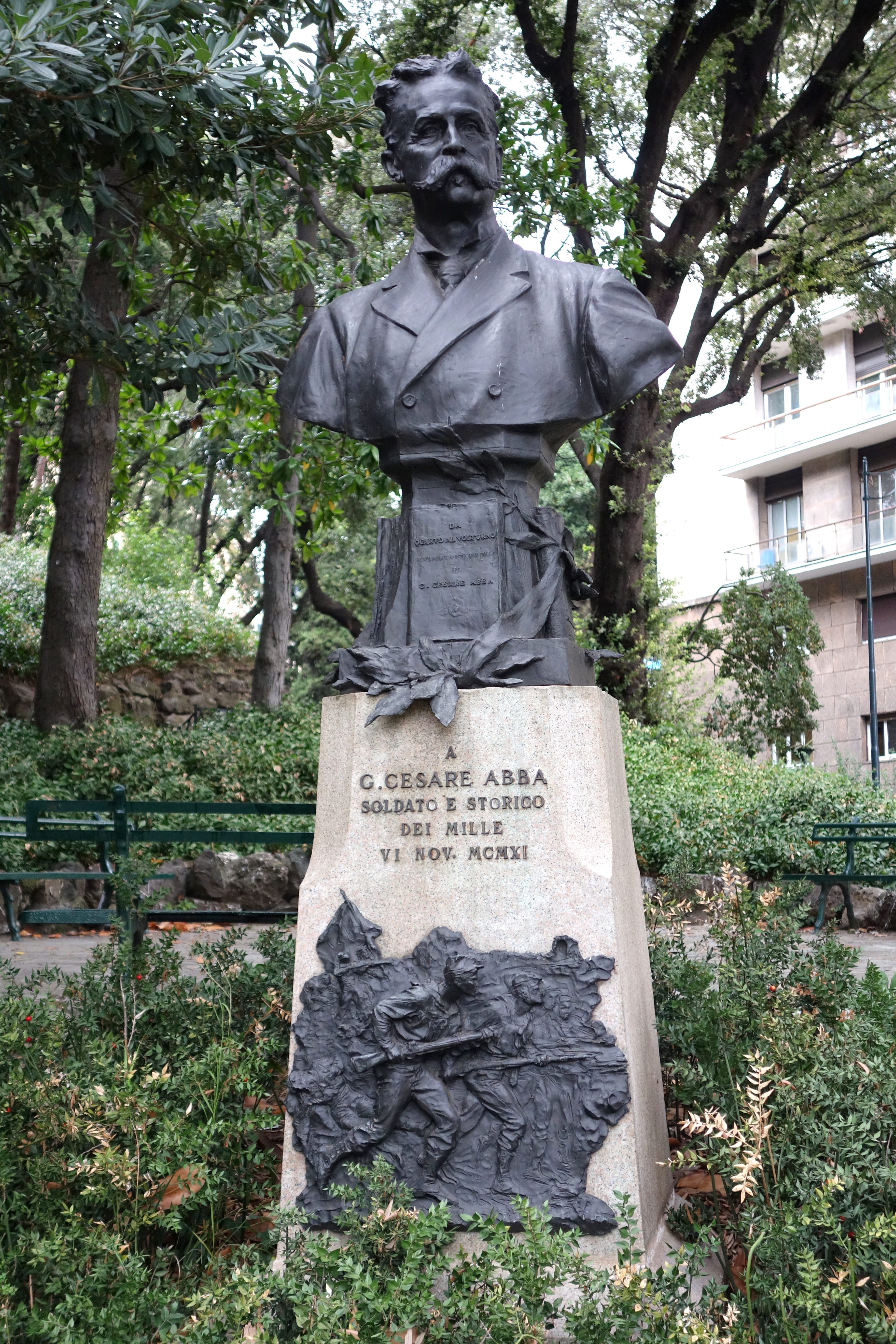 Memorial bust in the Villetta Di Negro (Genoa, Italy). This artwork is old enough so that it is in the public domain.